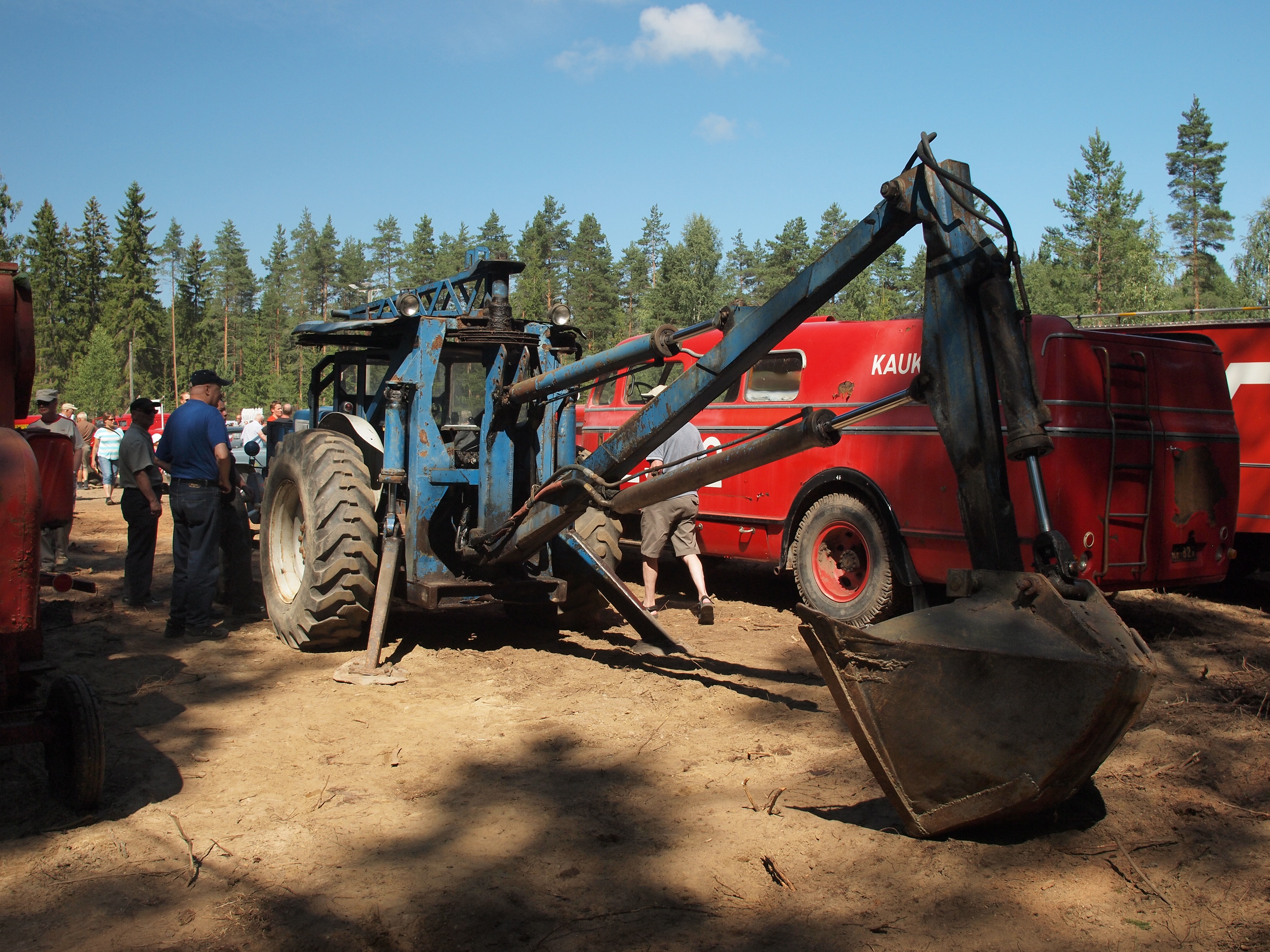 Fordson Super Major 5000 1965 and a Vammas backhoe commonly known amongst its users as "Riuku-Vammas" (Slat Vammas, referring to the long beam) .